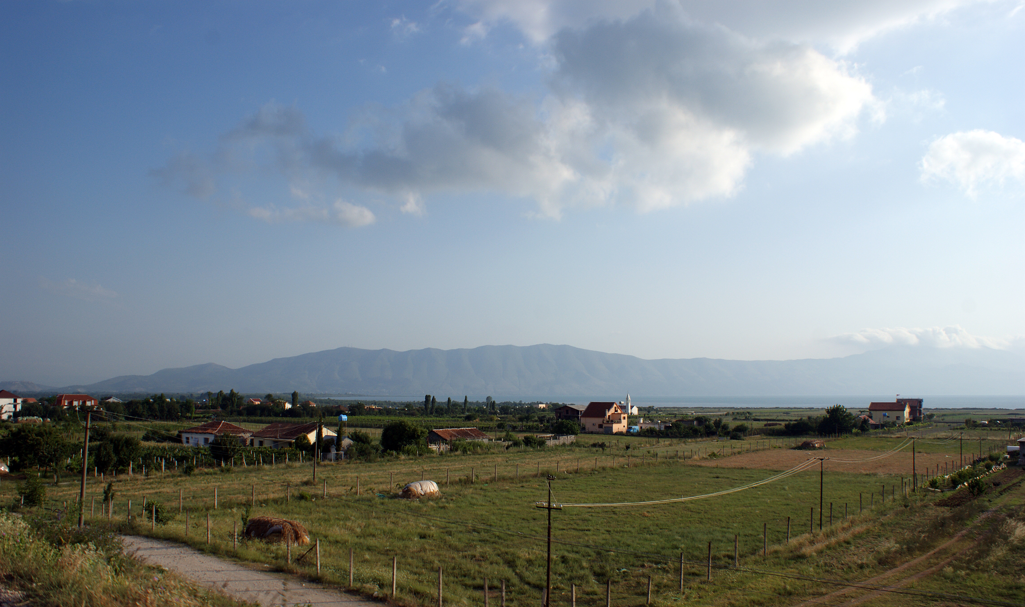 The village Grile North of Shkodra, Albania. Looking over Lake Scutari towards the mountain Tarabosh.